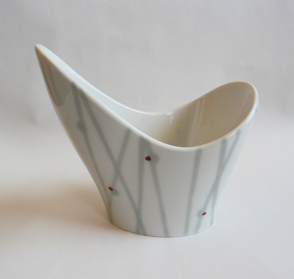 Porcelain vase «Treugolnaya». Between 1957-1960. Porcelain Factory «Red farforist» (Chudovo, Novgorod region. USSR). Porcelain of the soviet sculptor Bronislav Bystrushkin (1926-1977). Lomonosov's Porcelain Factory, Leningrad, USSR.